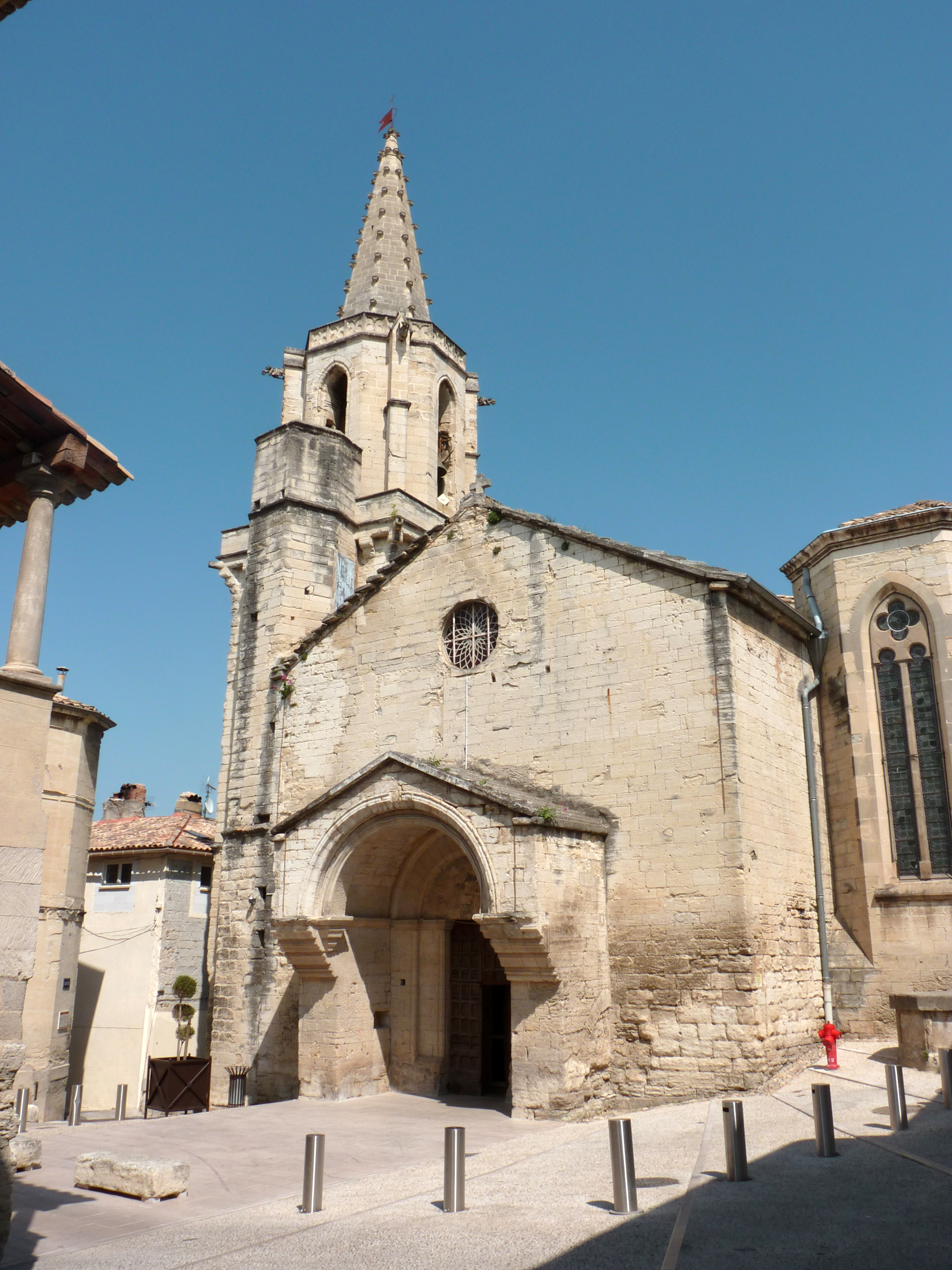 Notre-Dame-de-Grâce church in Barbentane, France. .